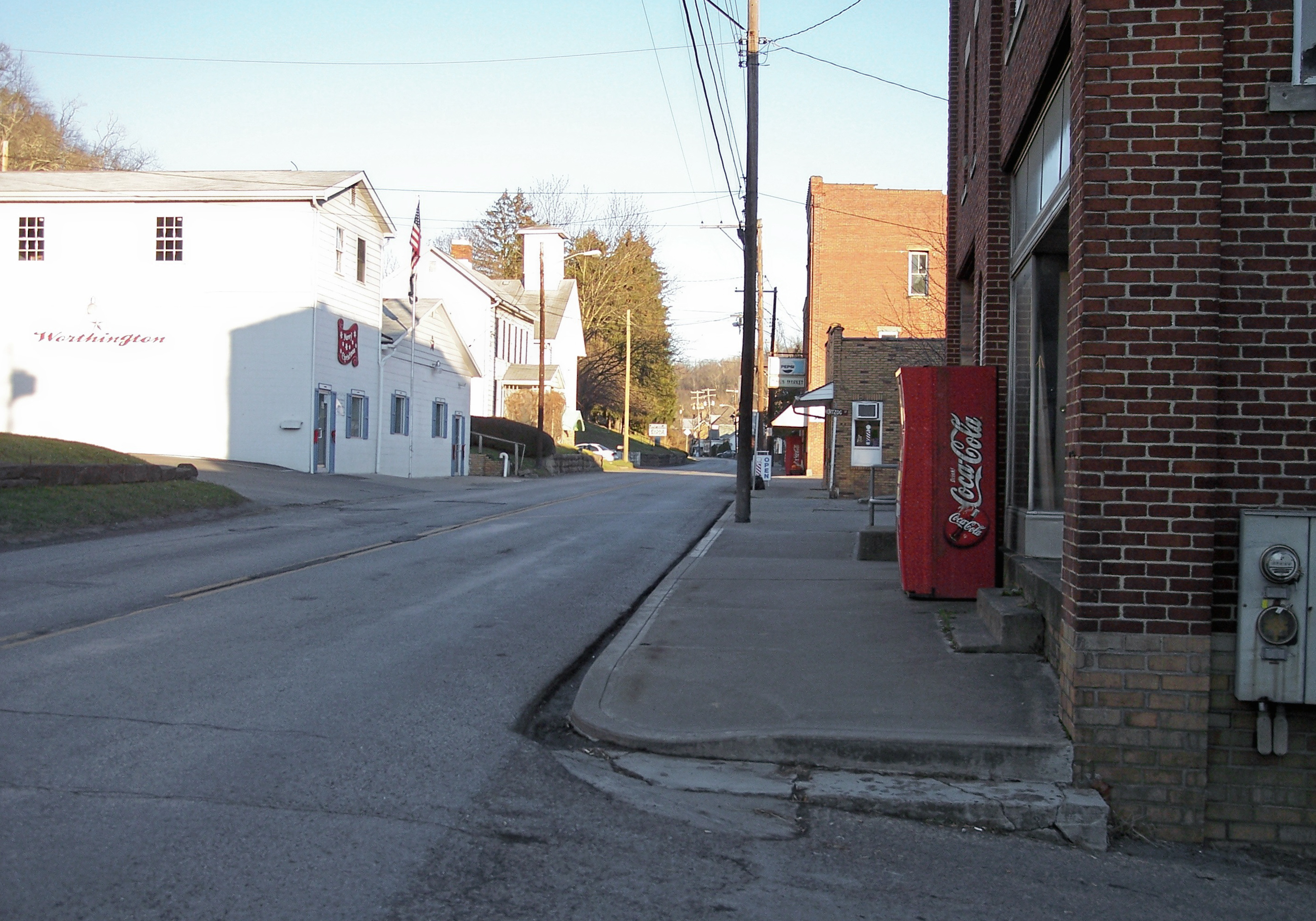 Main Street (U.S. Route 19) in Worthington, West Virginia